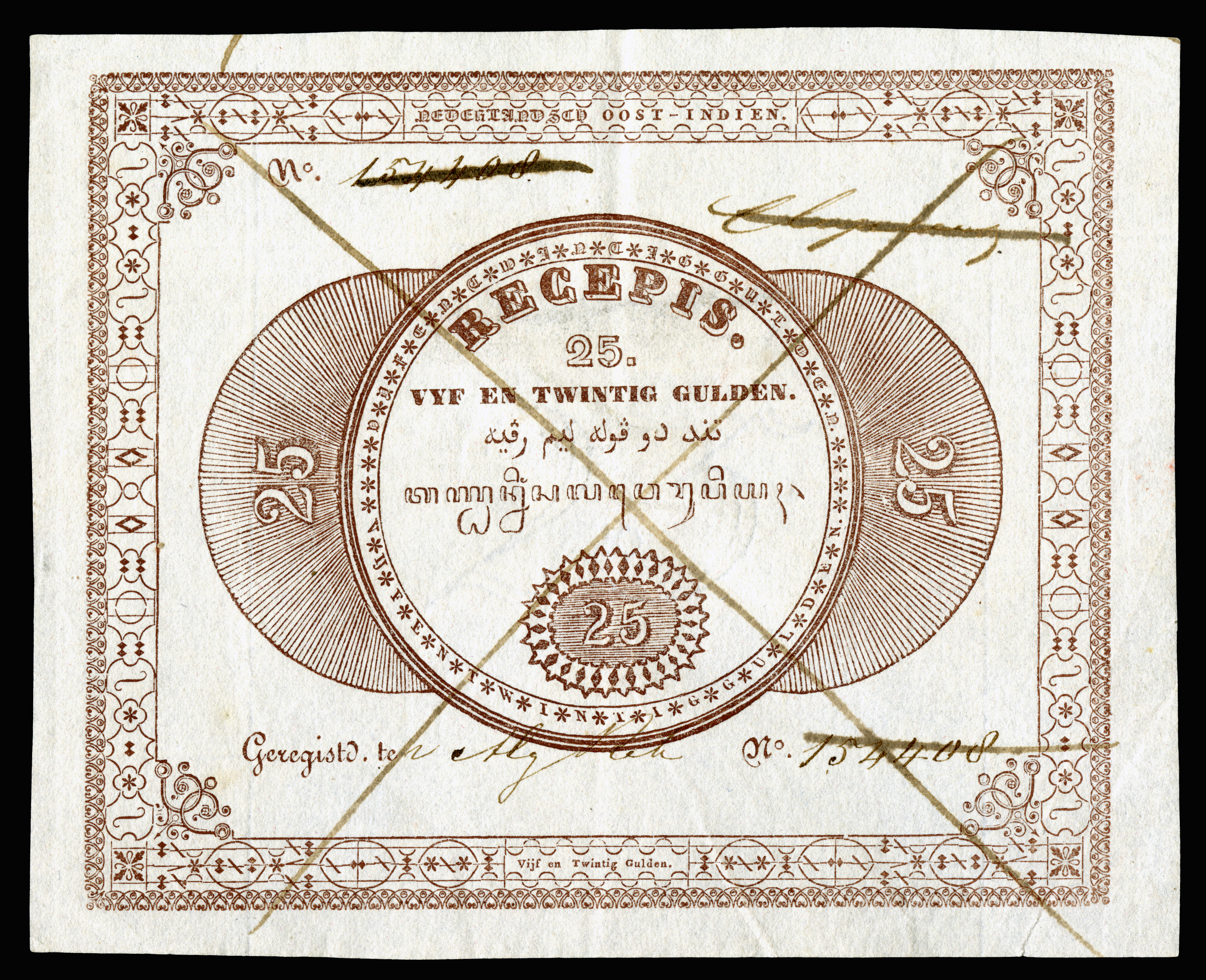 Twenty-five gulden issued Kingdom of the Netherlands government scrip for use in the Dutch East Indies in the mid-1850s.